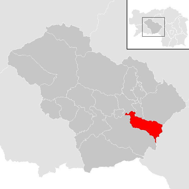 Lobmingtal within district Murtal in Styria, Austria